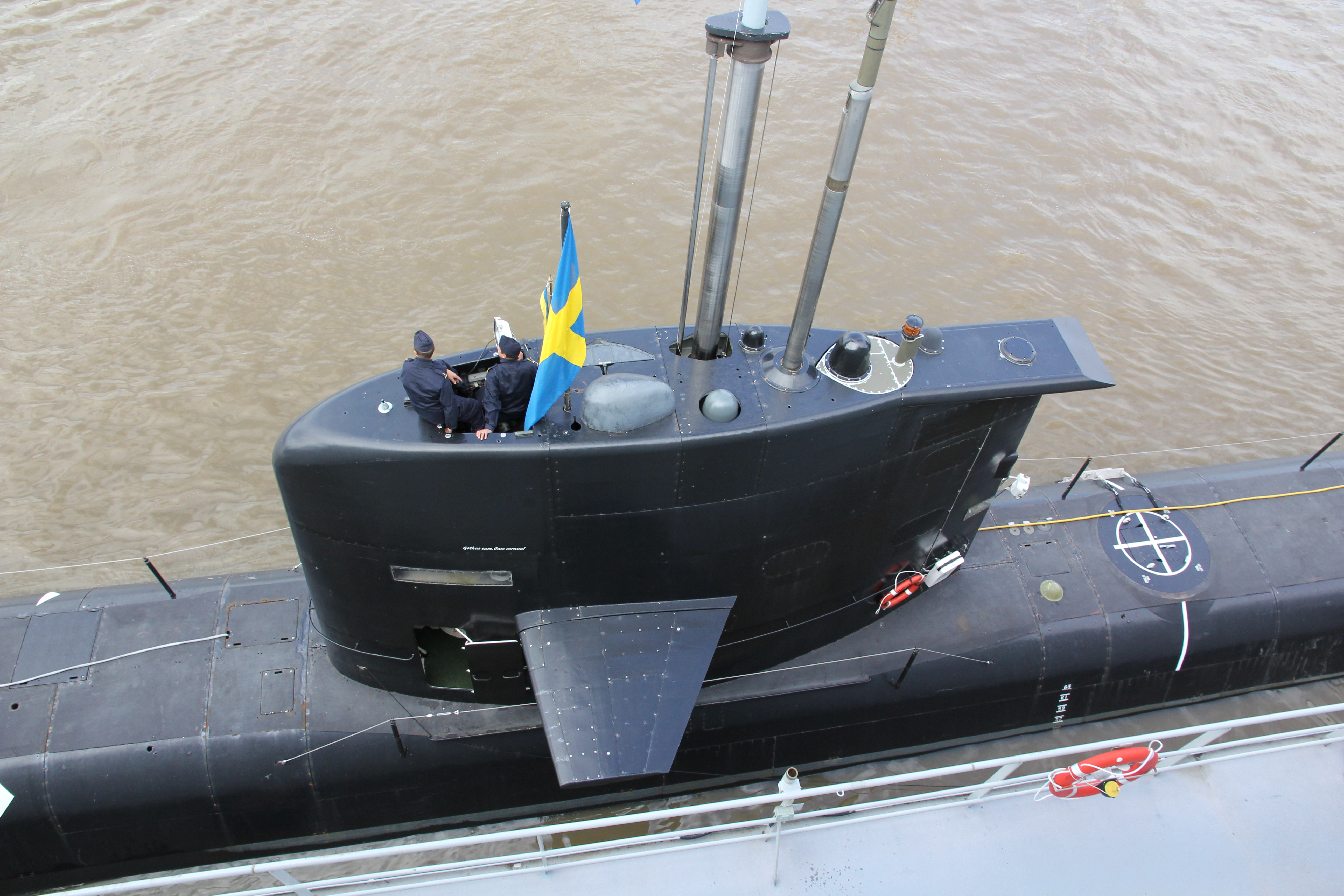 Swedish submarine Gotland photographed during the Northern Coasts 2014 exercise public pre sail event in Aura river in Turku. Photographed from Swedish patrol vessel Carlskrona (P04).